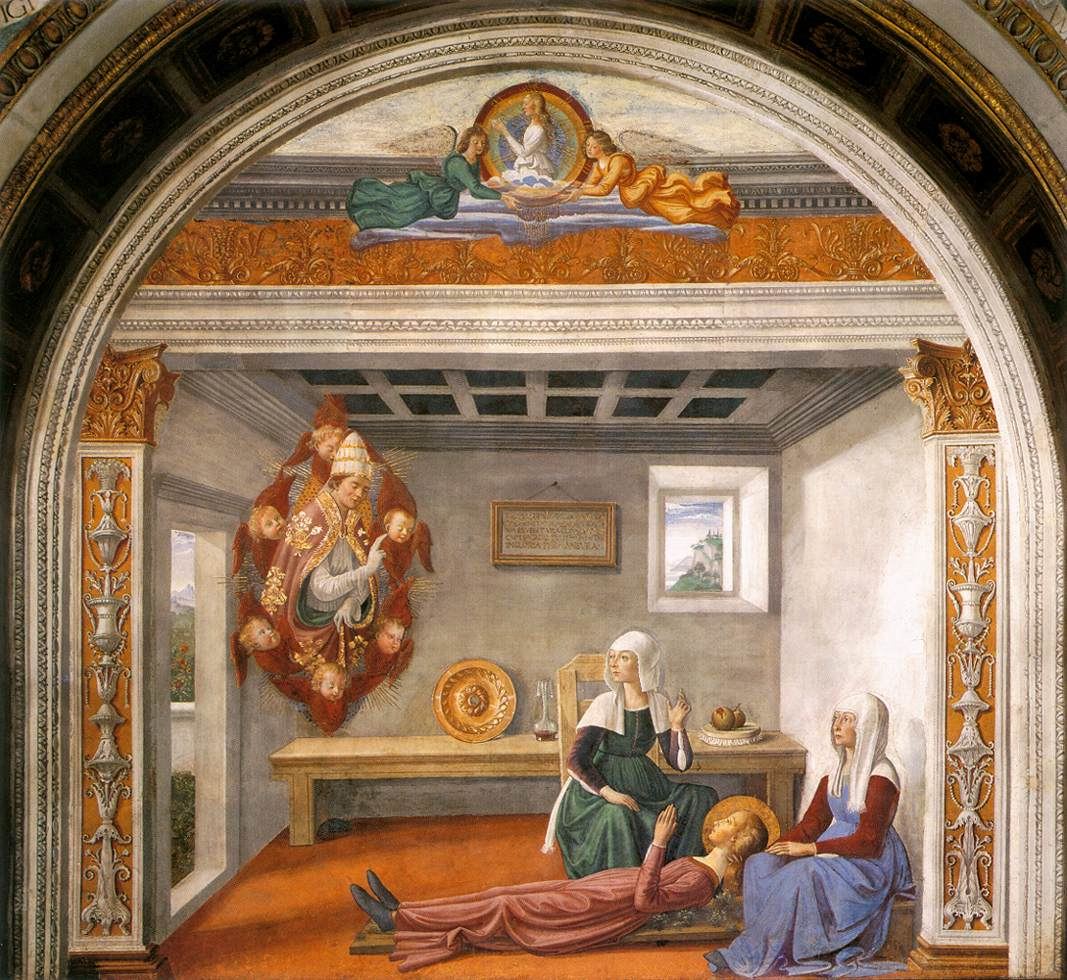 Announcement of Death to St Fina, Colleggiata, San Gimignano.